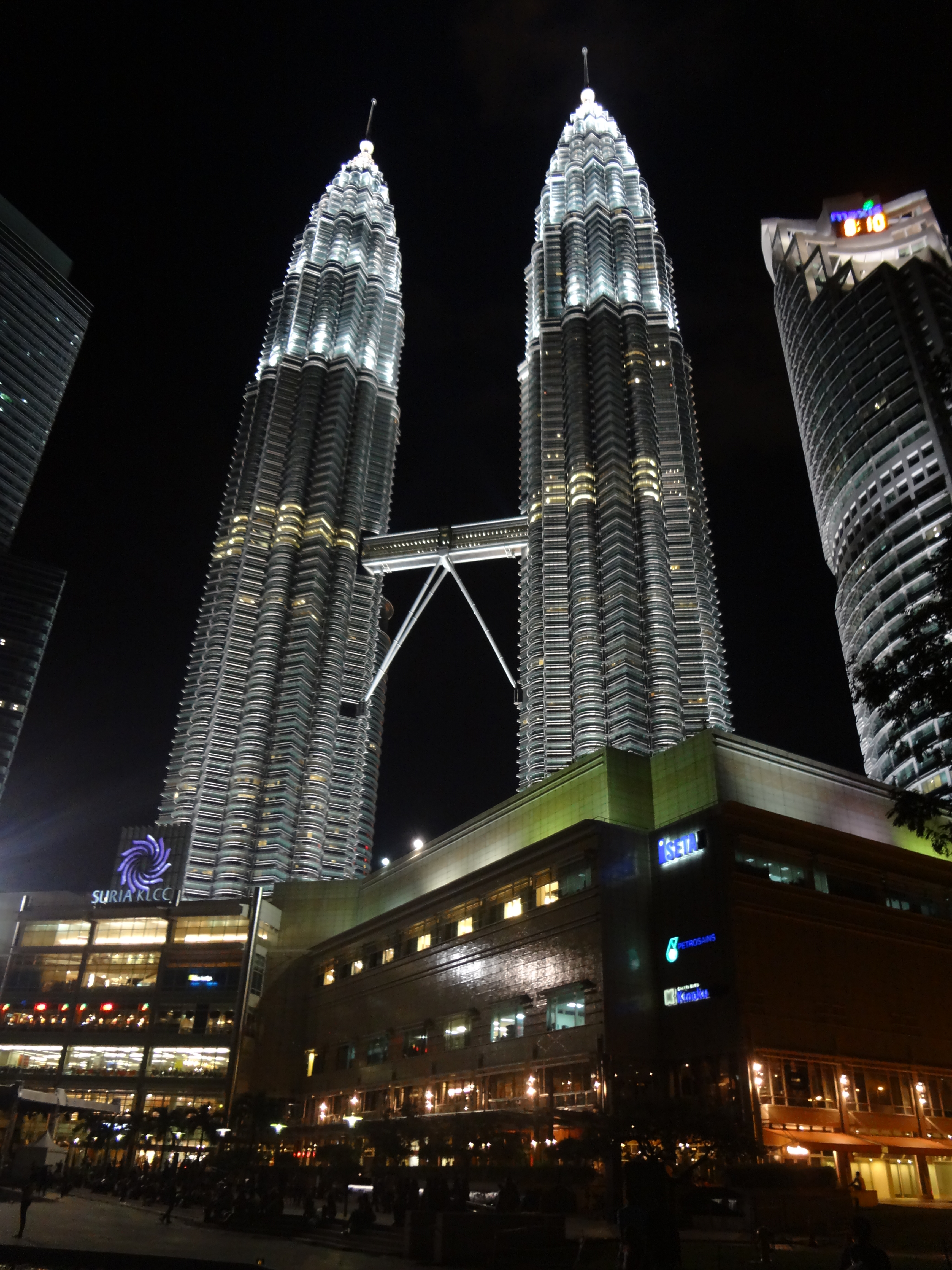 Night Twinkling image of the Petronas Towers in Kuala Lumpur, Taken from behind. नेपाली: पेट्रोनस भबन, कुअलालामपुर, मलेशियाको रात्रिको समयमा लिईएको तस्बिर